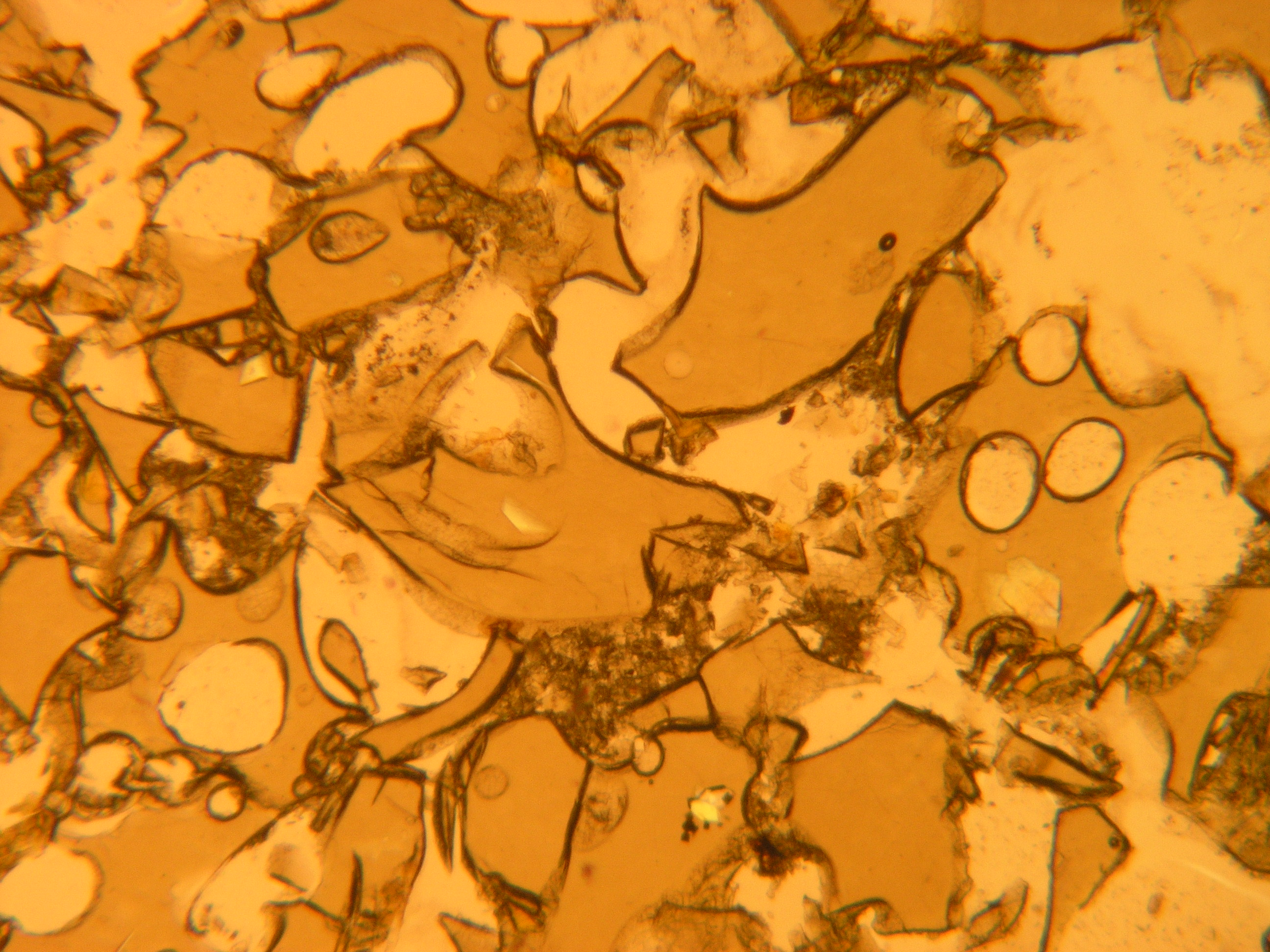 Clasts of hyaloclastite in petrographic microscope in plane polarized light. Dark bands of palagonite appear on the edges of the clasts. Width of the image is approximately 3 millimetres